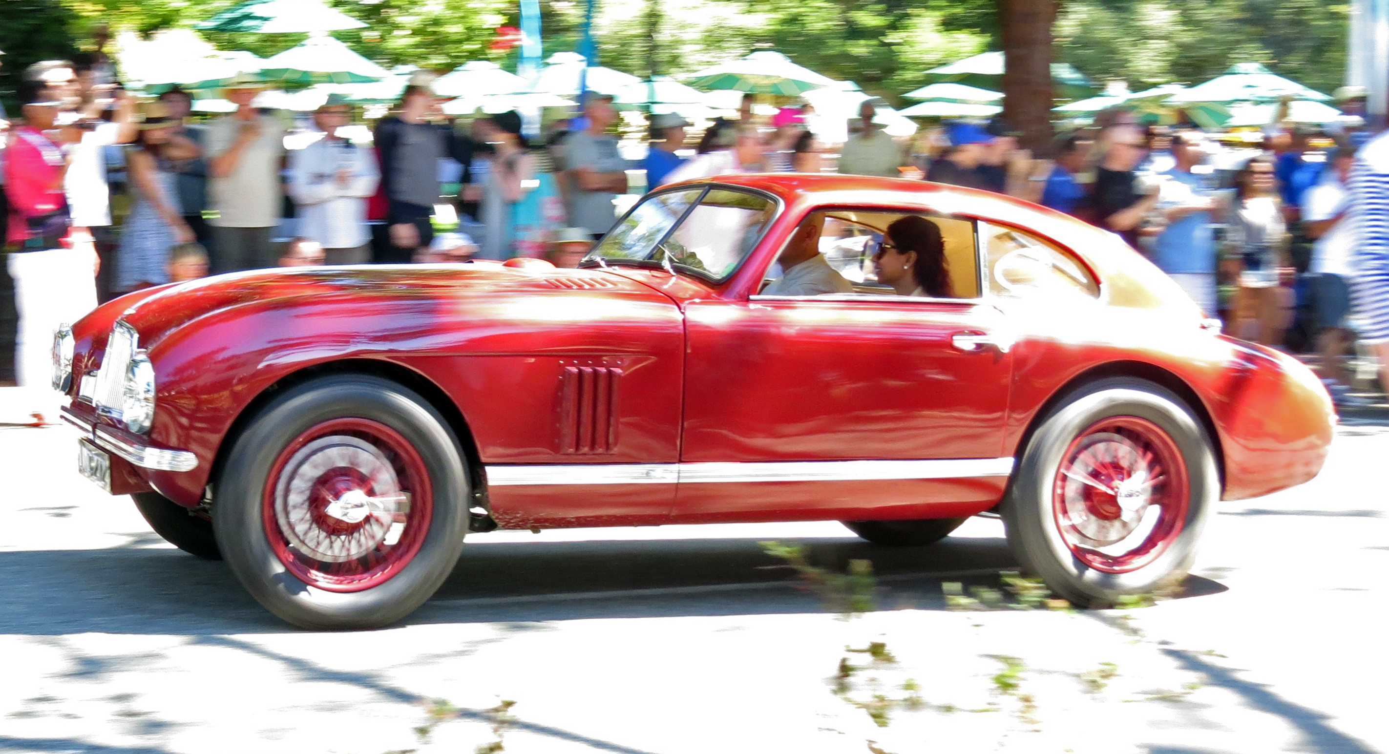 1949 Aston Martin DB Mk II prototype (UMC 272) at the Carmel Tour d'Elegance, August 13, 2015. This was the fourth and last DB2 prototype, built for David Brown's personal use.